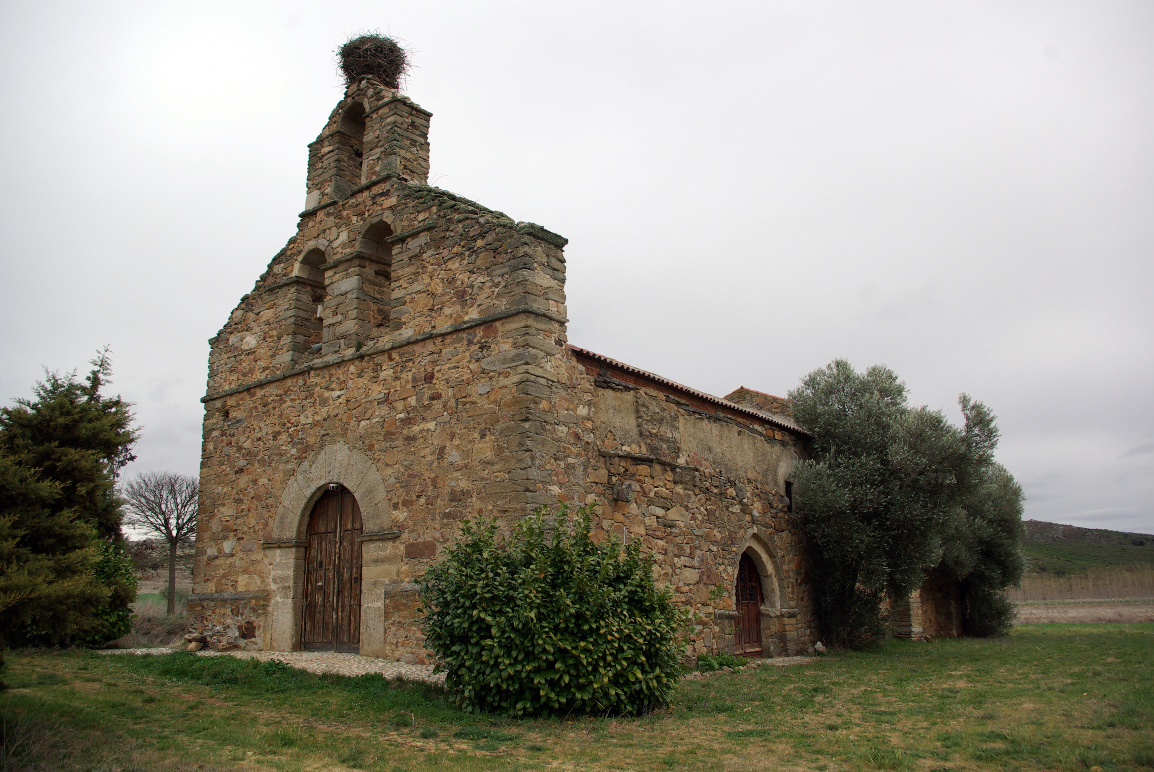 Hermitage of San Adrián, near Benavente, Zamora, (Spain)